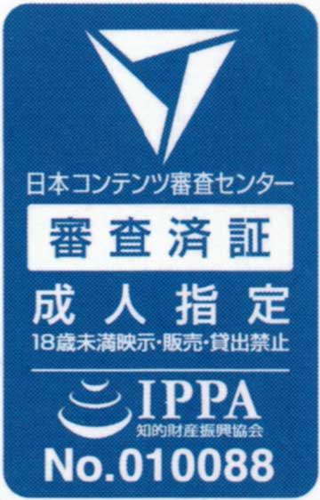 Media contents rating symbol of R-18 (legally restricted) formed by Japan contents Review Center.